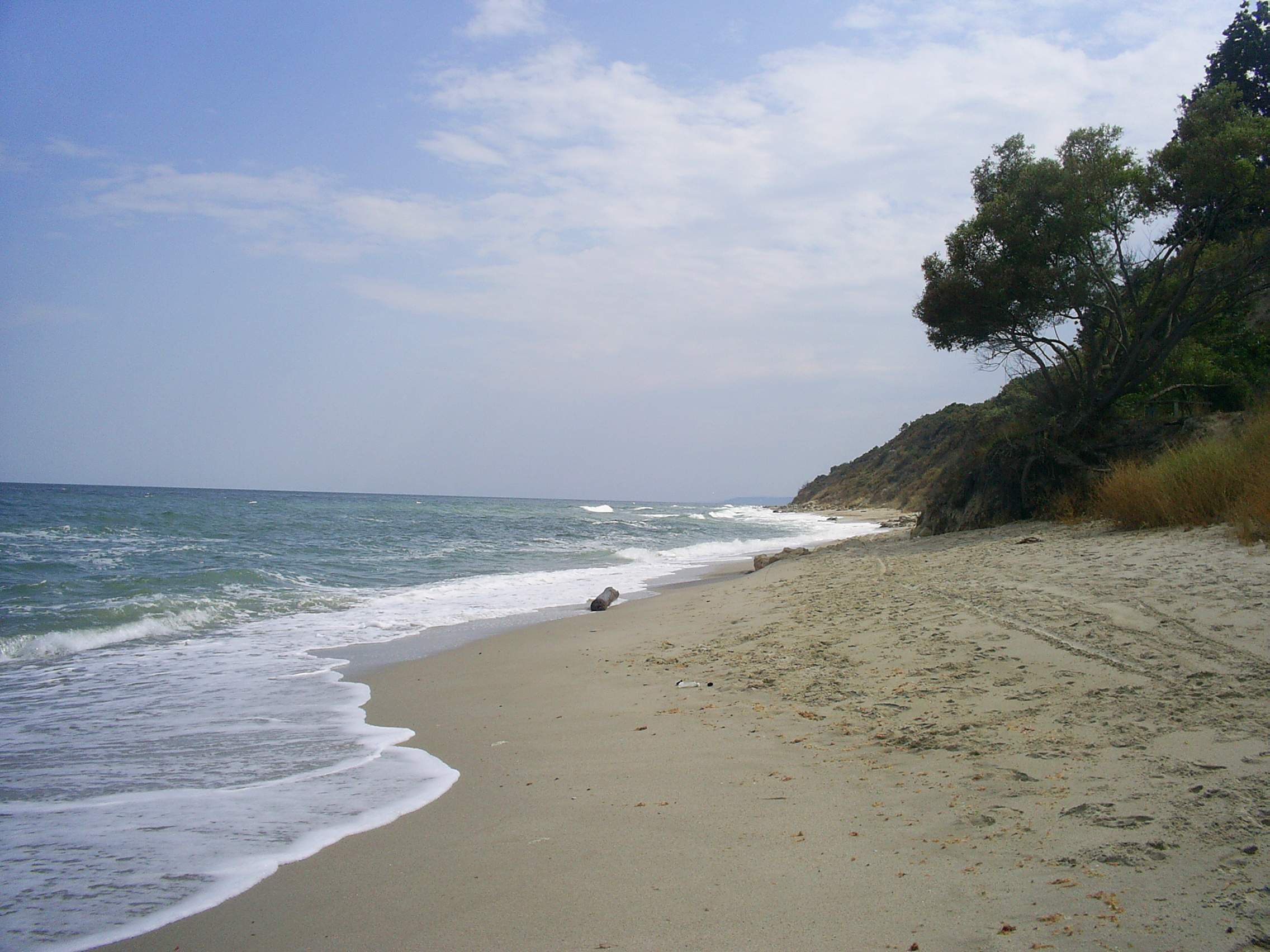 Pasha dere on the Black sea coast. The southern part of the locality, which is hardly accessible